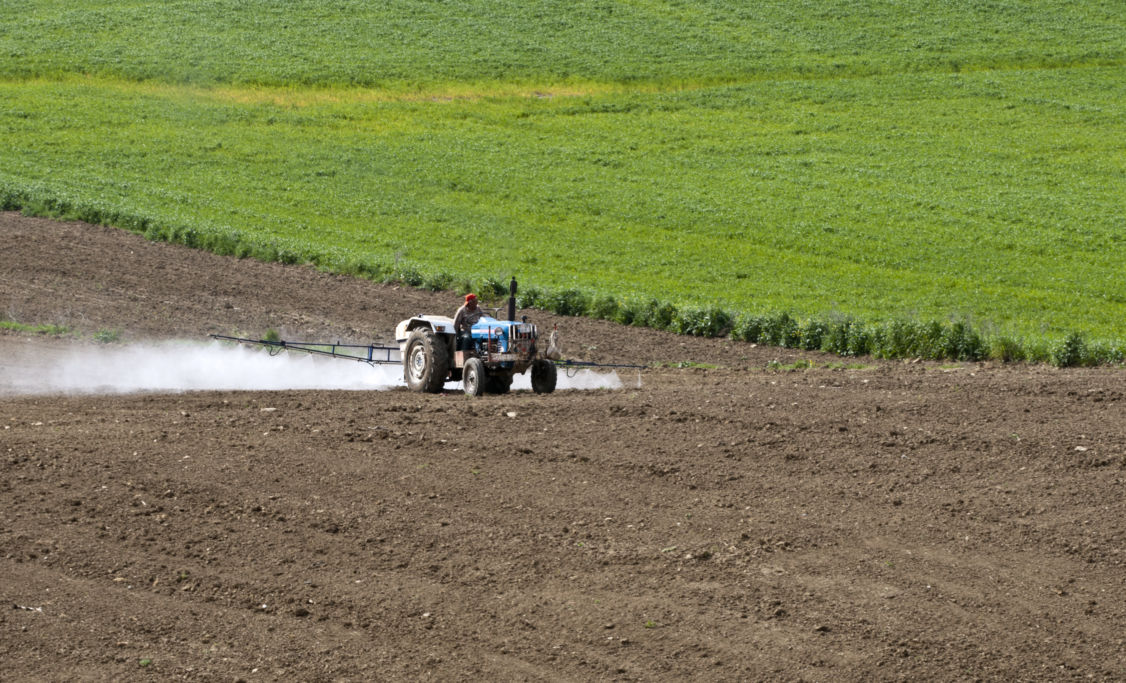 Pesticide application for chemical control of nematodes in a sunflower planted field. Karaisalı, Adana - Turkey.